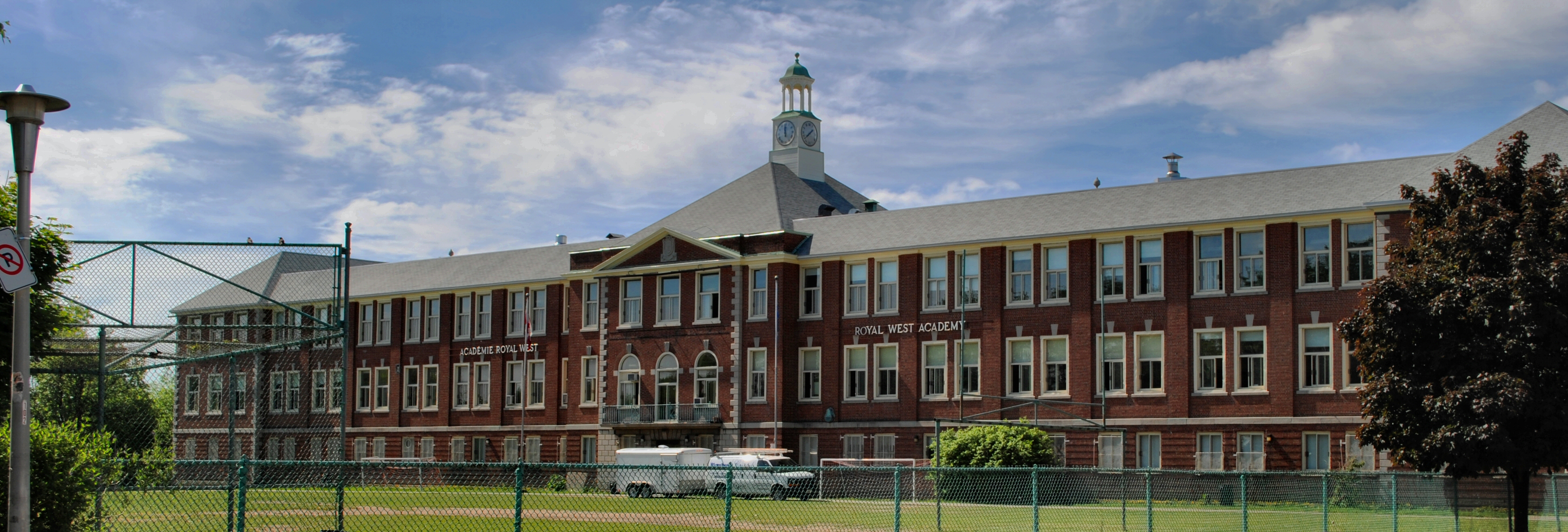 Royal West Academy in Montreal West, Québec